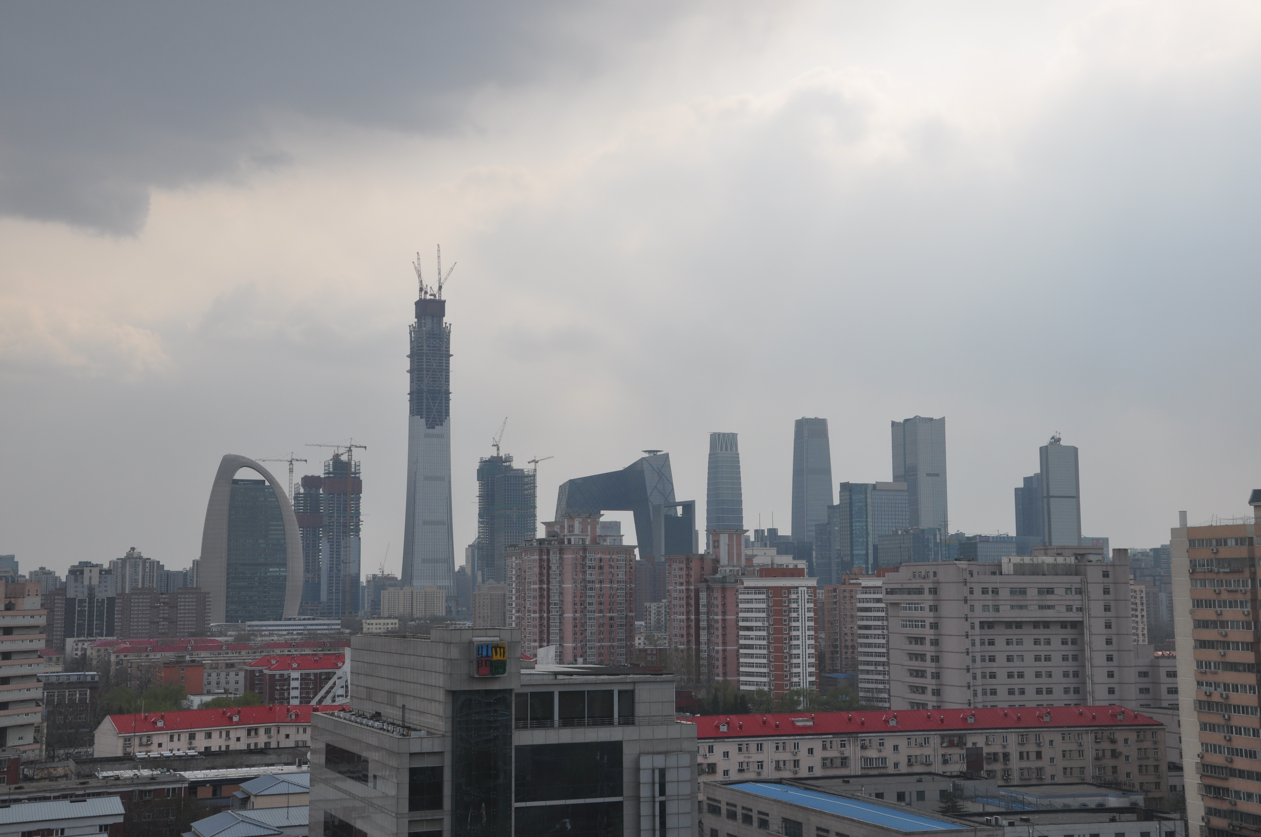 Beijing Central Business District in March 25, 2017. Photoed from Phoenix Center.